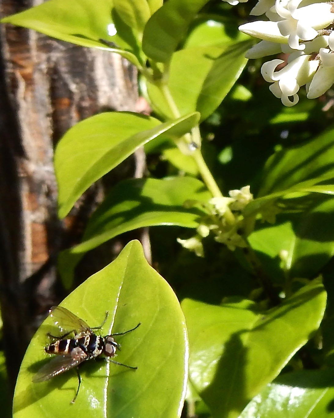 On a bush in Raglan in 2016